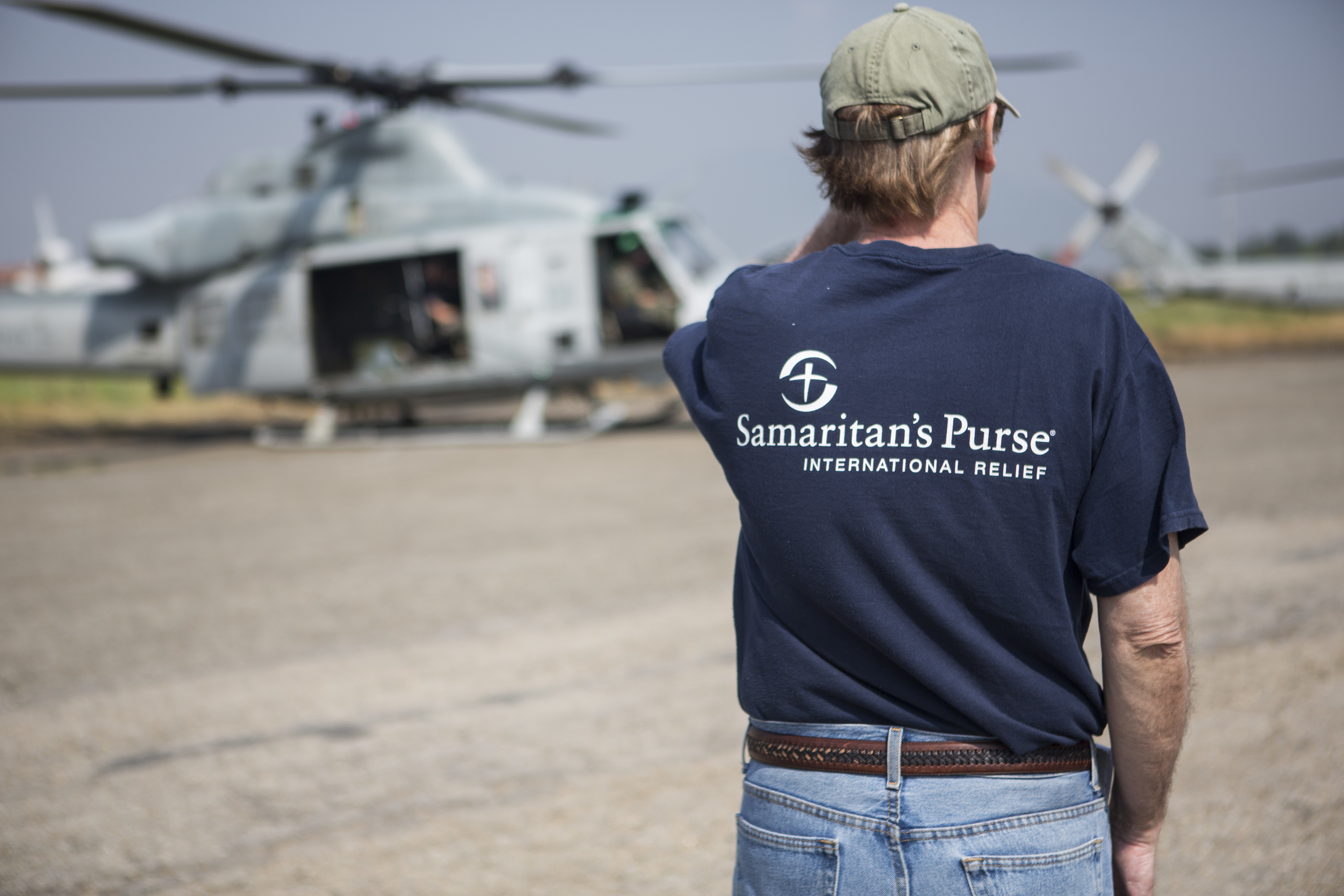 A member of the humanitarian organization Samaritan’s Purse waits to board a UH-1Y Venom, with Joint Task Force 505, for transportation to the Villages of Chilangka and Worang, Nepal, May, 11, during Operation Sahayogi Haat. The Nepalese Government requested the U.S. Government’s assistance after a 7.8 magnitude earthquake struck the country, April 25. The U.S. government ordered JTF 505 to provide unique capabilities to assist Nepal. (U.S. Marine Corps photo by MCIPAC Combat Camera Staff Sgt. Jeffrey D. Anderson/Released)